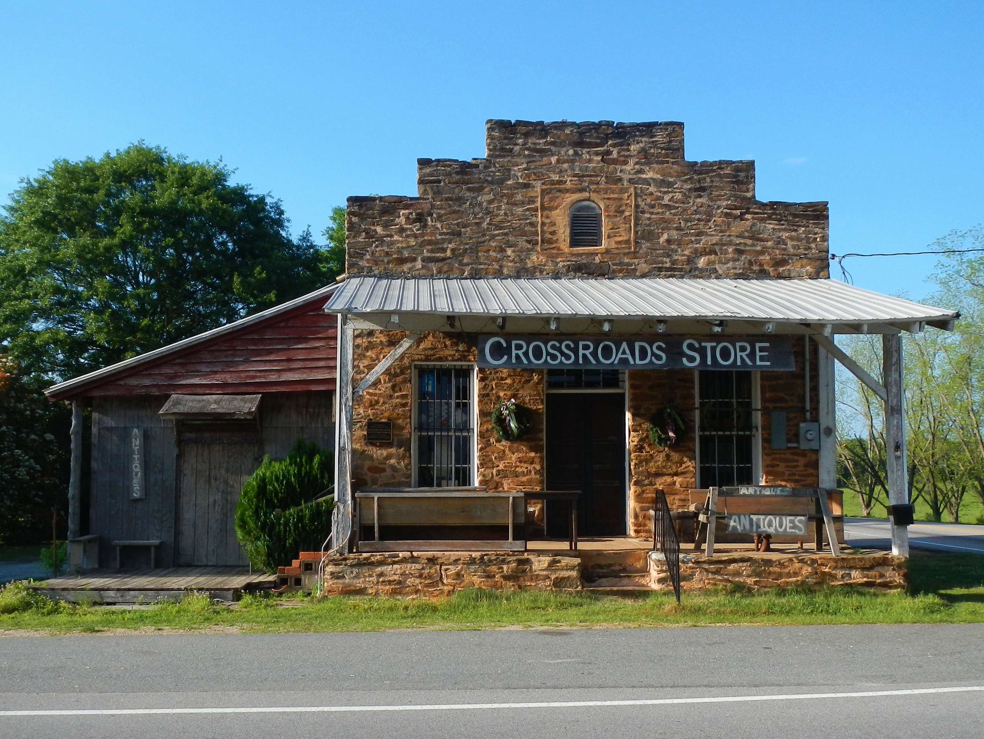 This is a photo of the R. M. Jones General Store located in Jones Crossroads, Georgia. It was added to the NRHP on February 10, 2009.